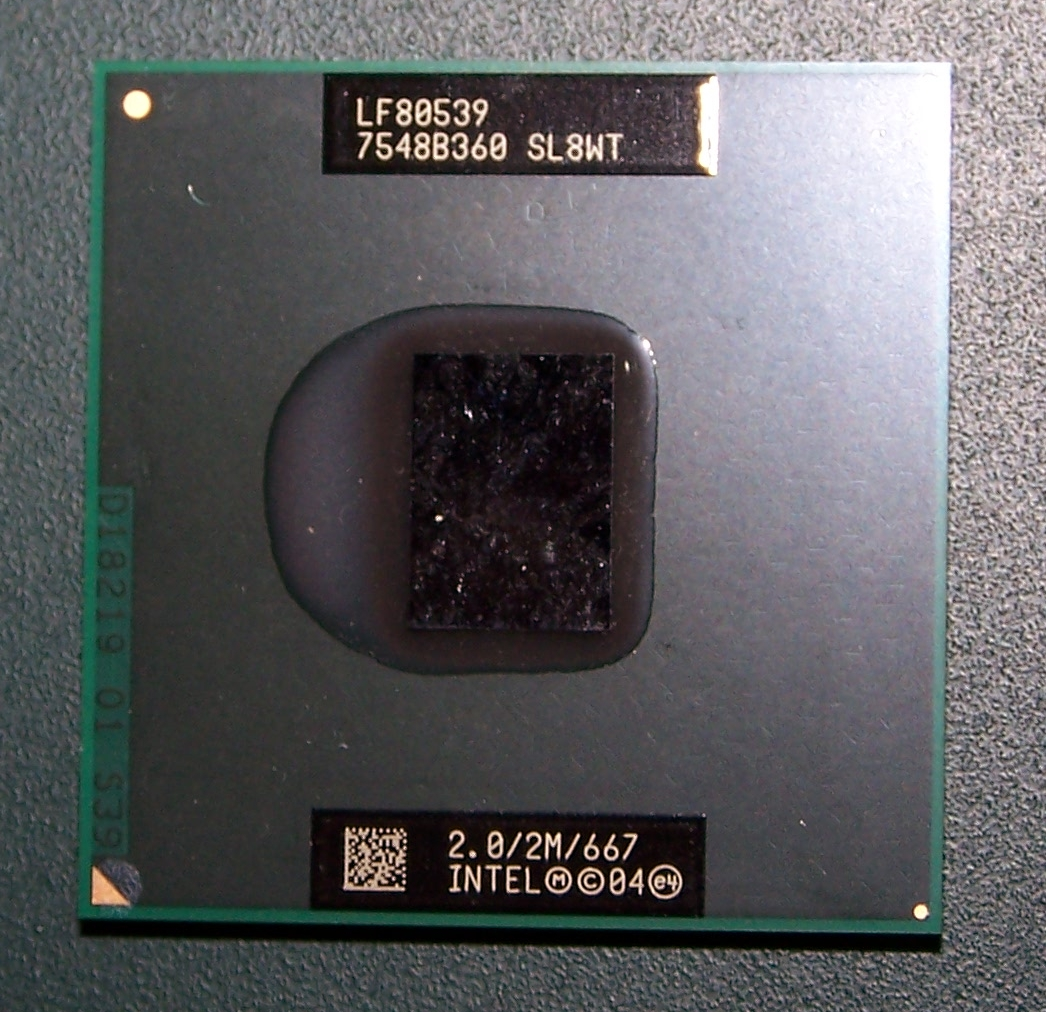 2.00 GHz Xeon LV "Sossaman" processor